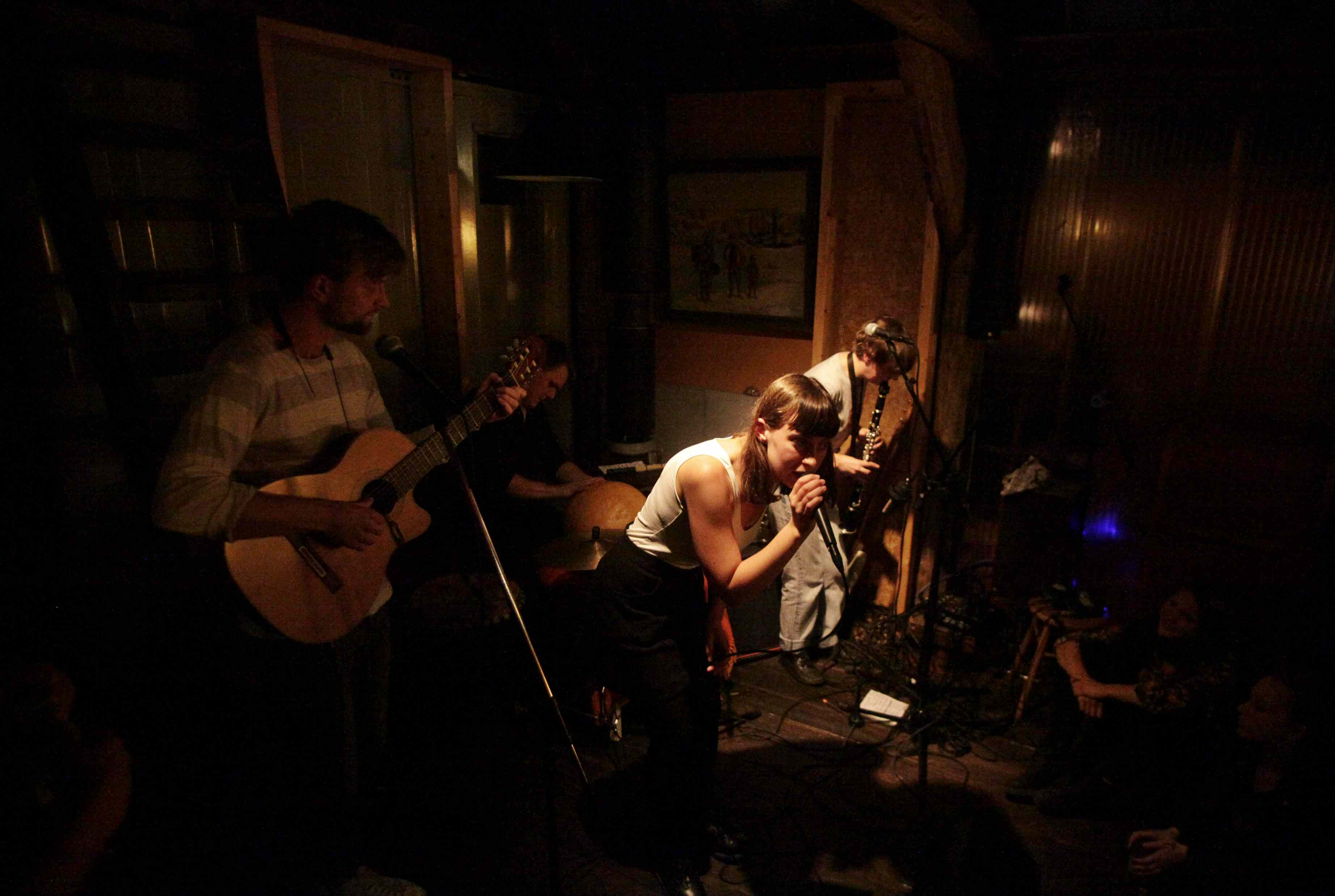 Norwegian folk rock group Ohnesorg playing at Naustet, Oslo in 2017.